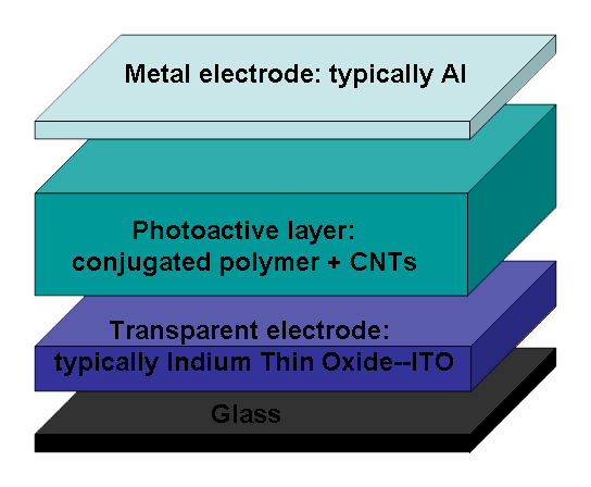 The basic structure of a CNT-incorporated polymer solar cell.